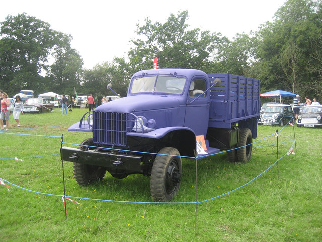 Pop Larkin's Truck Seen at the Darling Buds Classic Car Show at Buss Farm. For This Ex-WWII Chevrolet truck was driven by 'Pop Larkin' in "The Darling Buds of May" ITV series (1991-1993), which was filmed at Buss Farm.